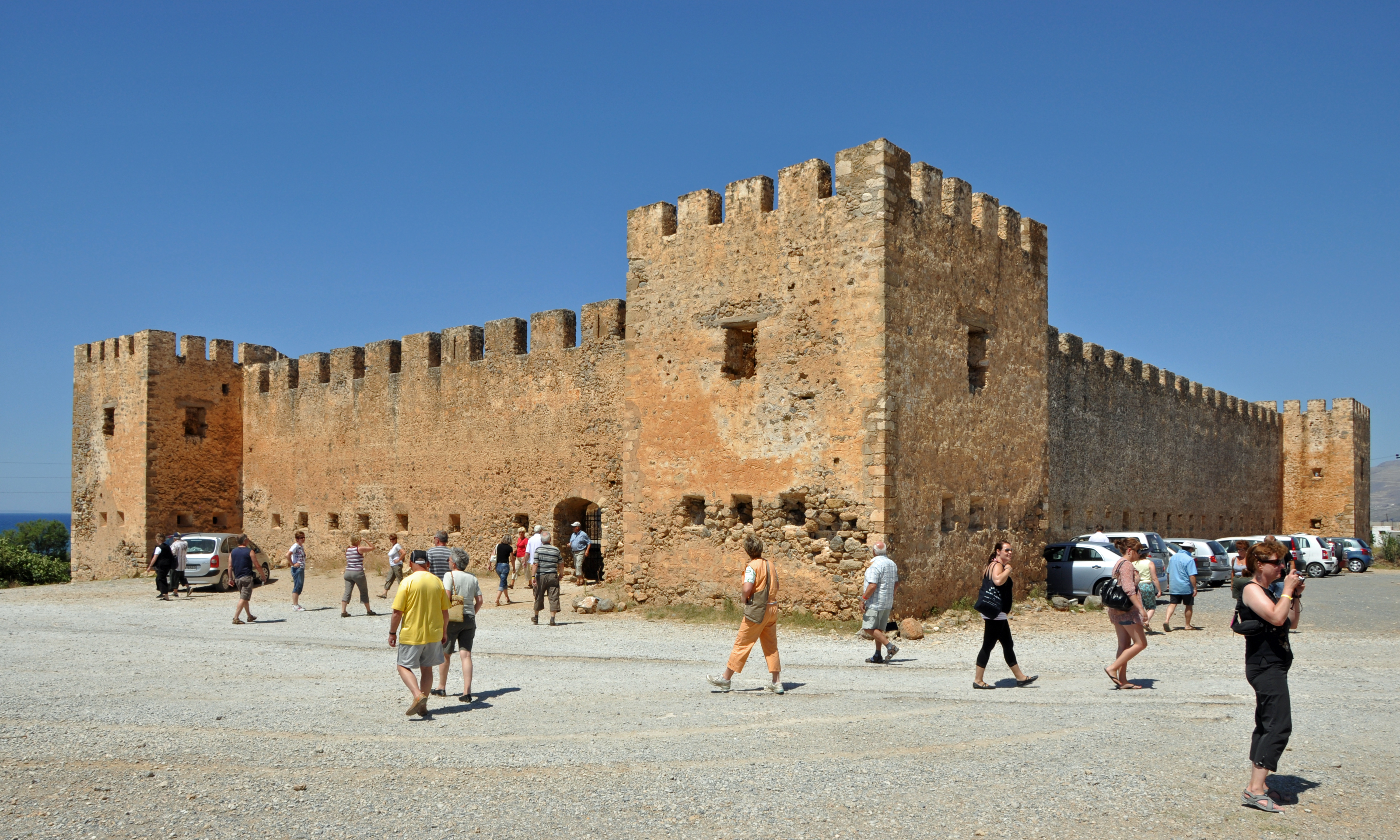 Frangokastello (Crete, Greece): the Venetian castle